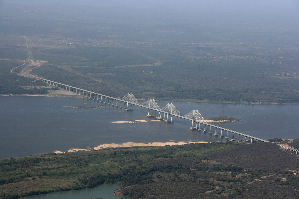 The Second Orinoco crossing or Orinoquia Bridge is a combined road and railway bridge over the Orinoco River near Ciudad Guayana, Venezuela Original caption: “The second, and newest, bridge across the Orinoco river, close to Guayana (Puerto Ordaz)”